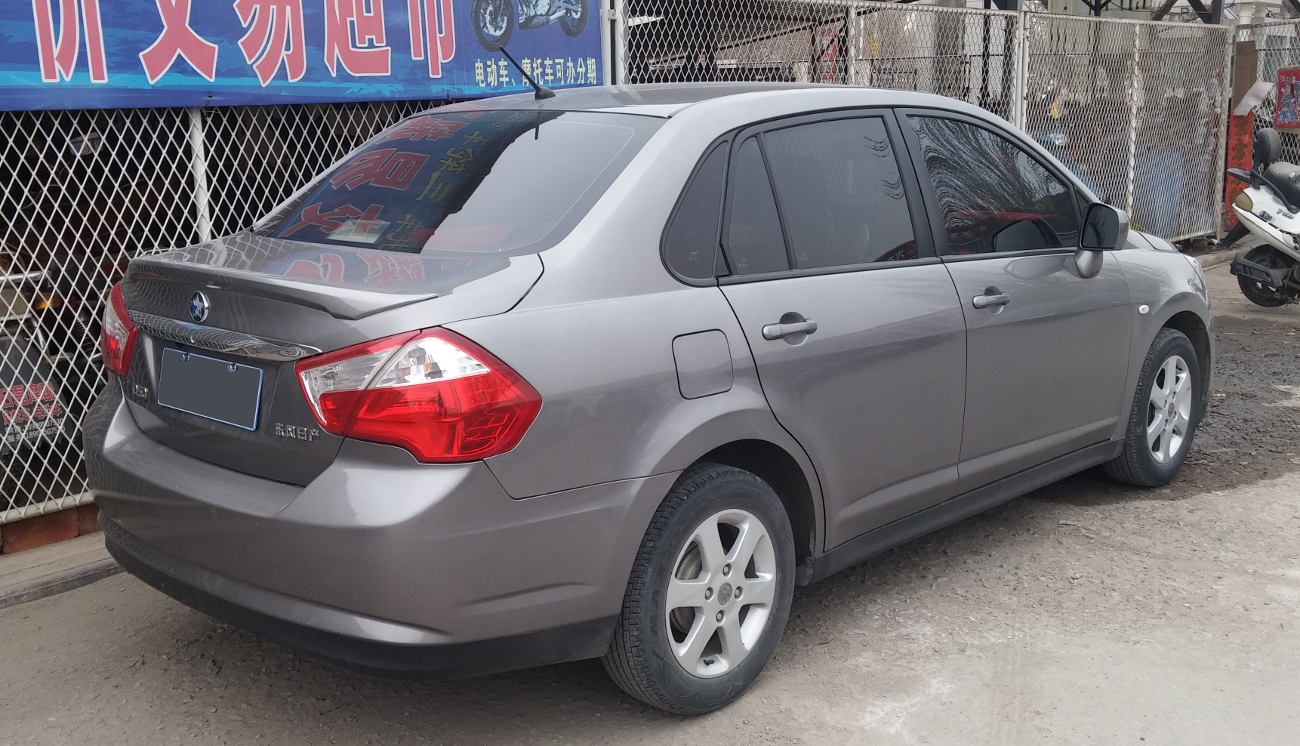 Venucia D50 photographed in Yinchuan, Ningxia province, China.